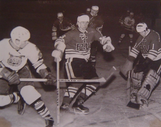 Jarmo Wasama of Ilves and Olli Rajala and Lauri Mattson of TPV (season 1962-1963)